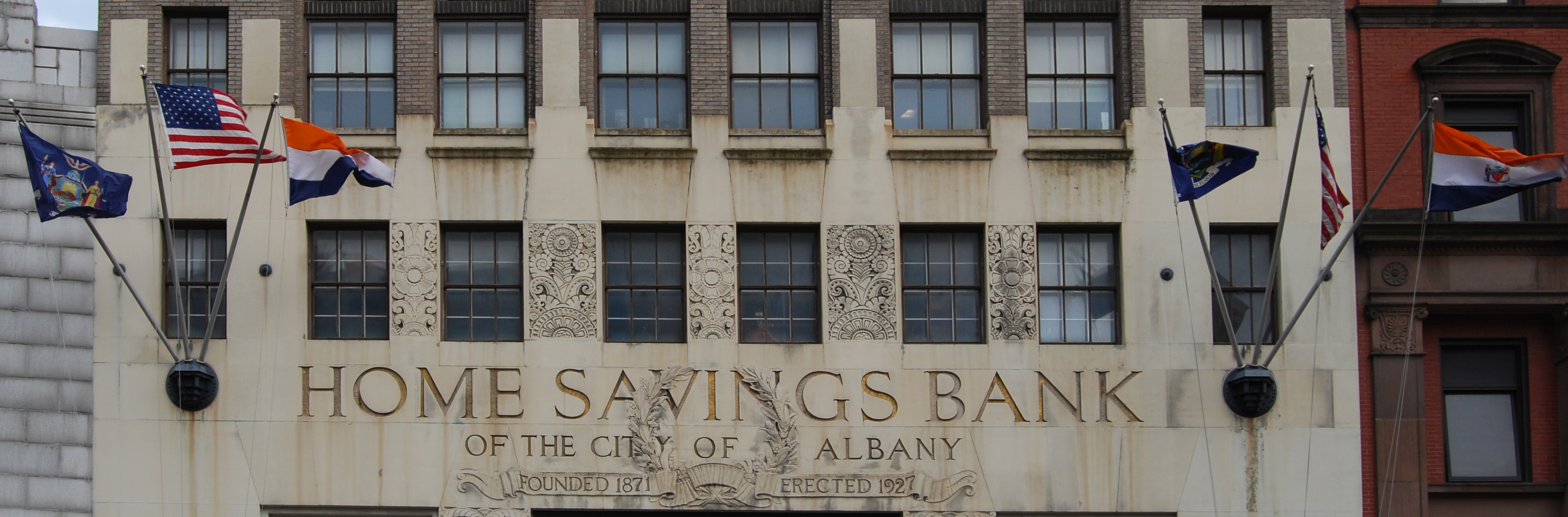 Detail of the Home Savings Bank Building, a contributing property of the Downtown Albany Historic District in Albany, New York, United States